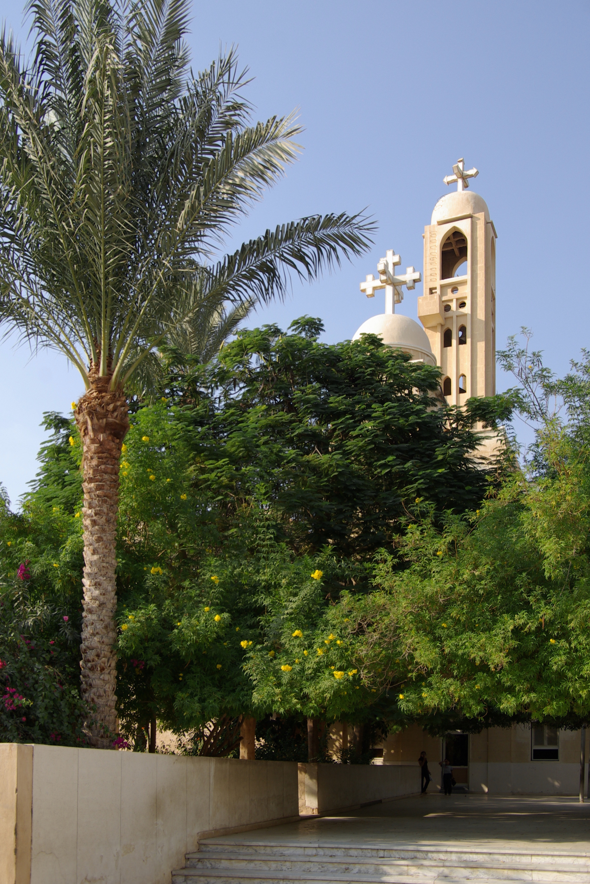 Monastery of Saint Bishoy, Wadi Natrun